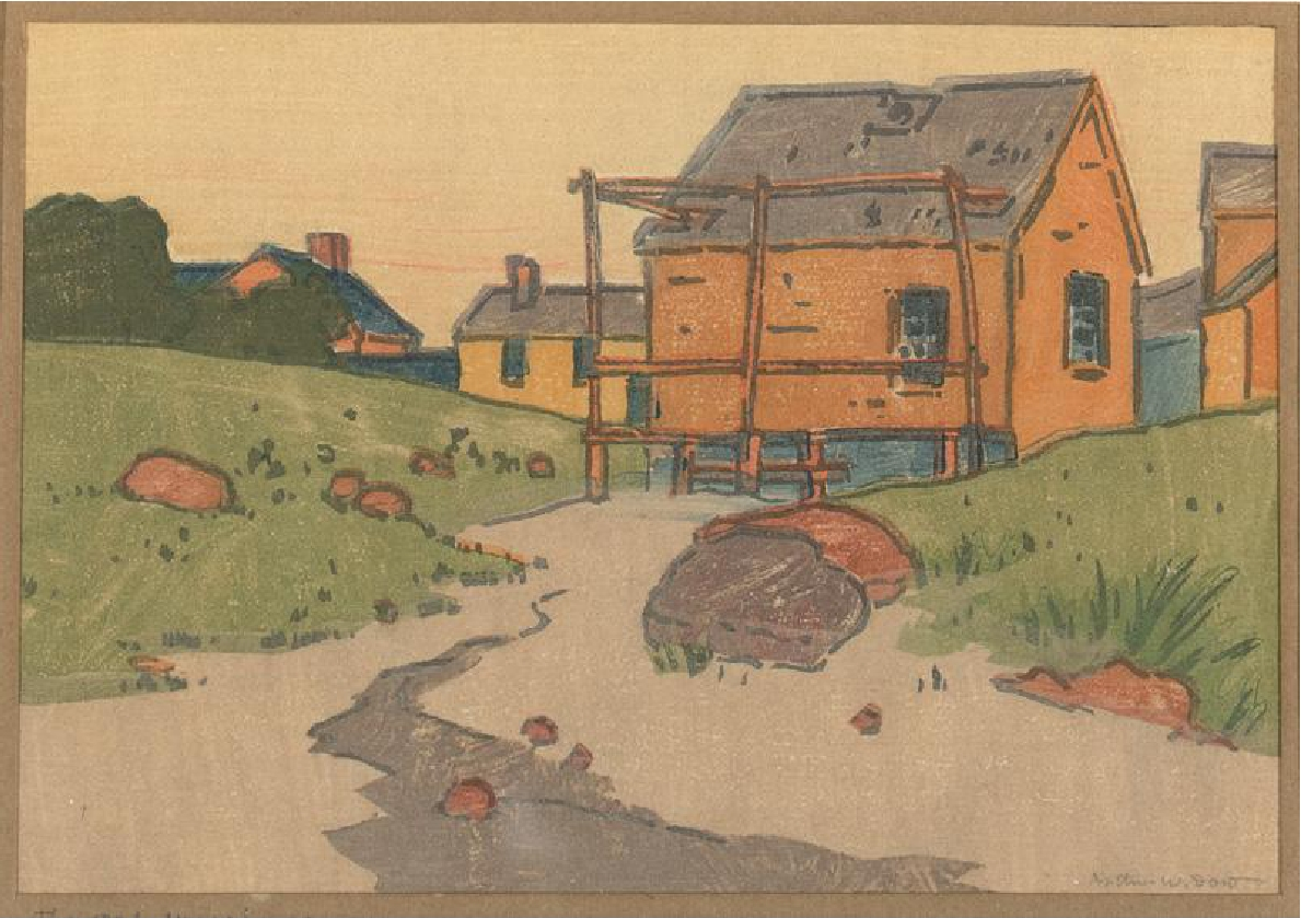 The clam house (Acton & Goddu 2)